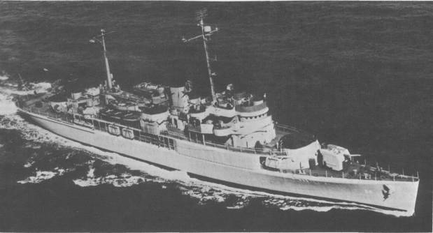 United States Navy seaplane tender USS Timbalier (AVP-54)